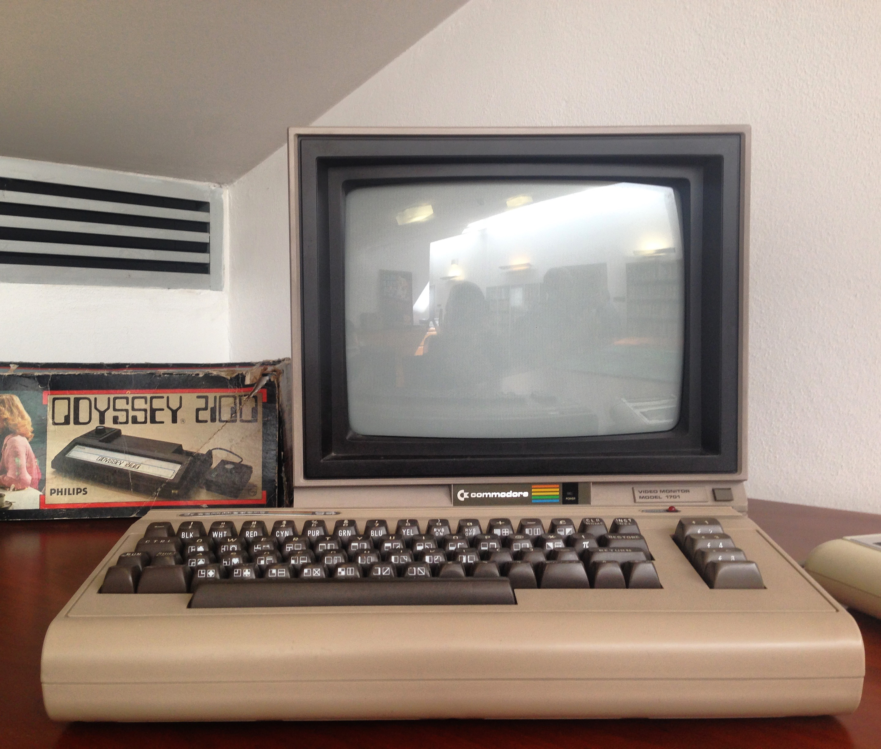 Commodore64 with 1701 monitor